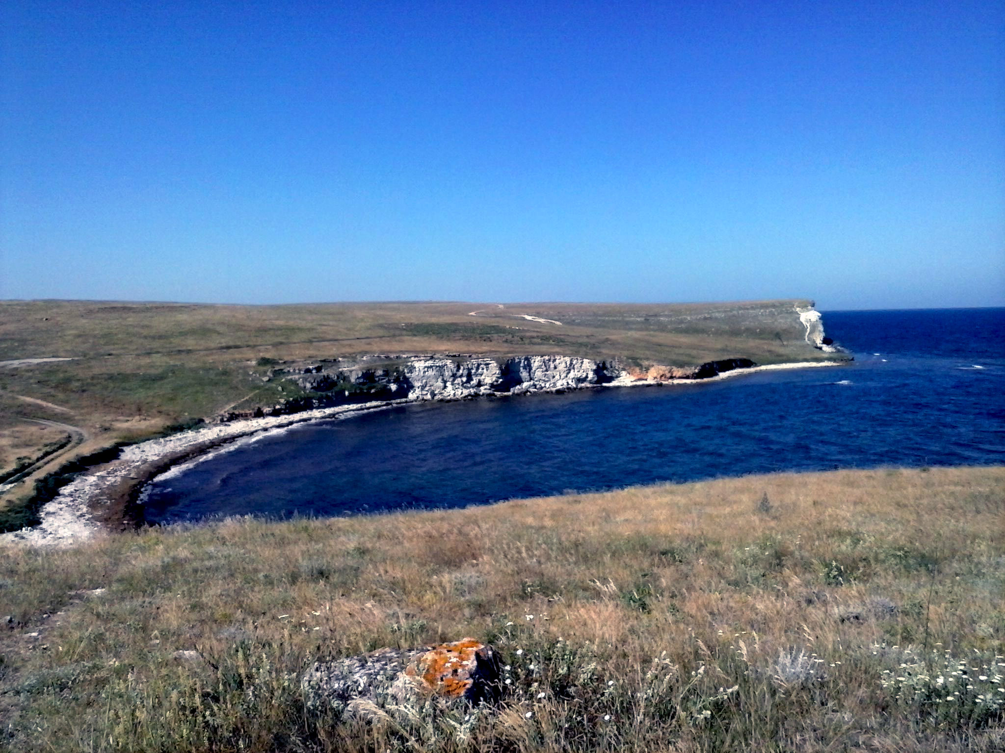 Abrasion coast of cape Tarkhankut on a Crimean peninsula